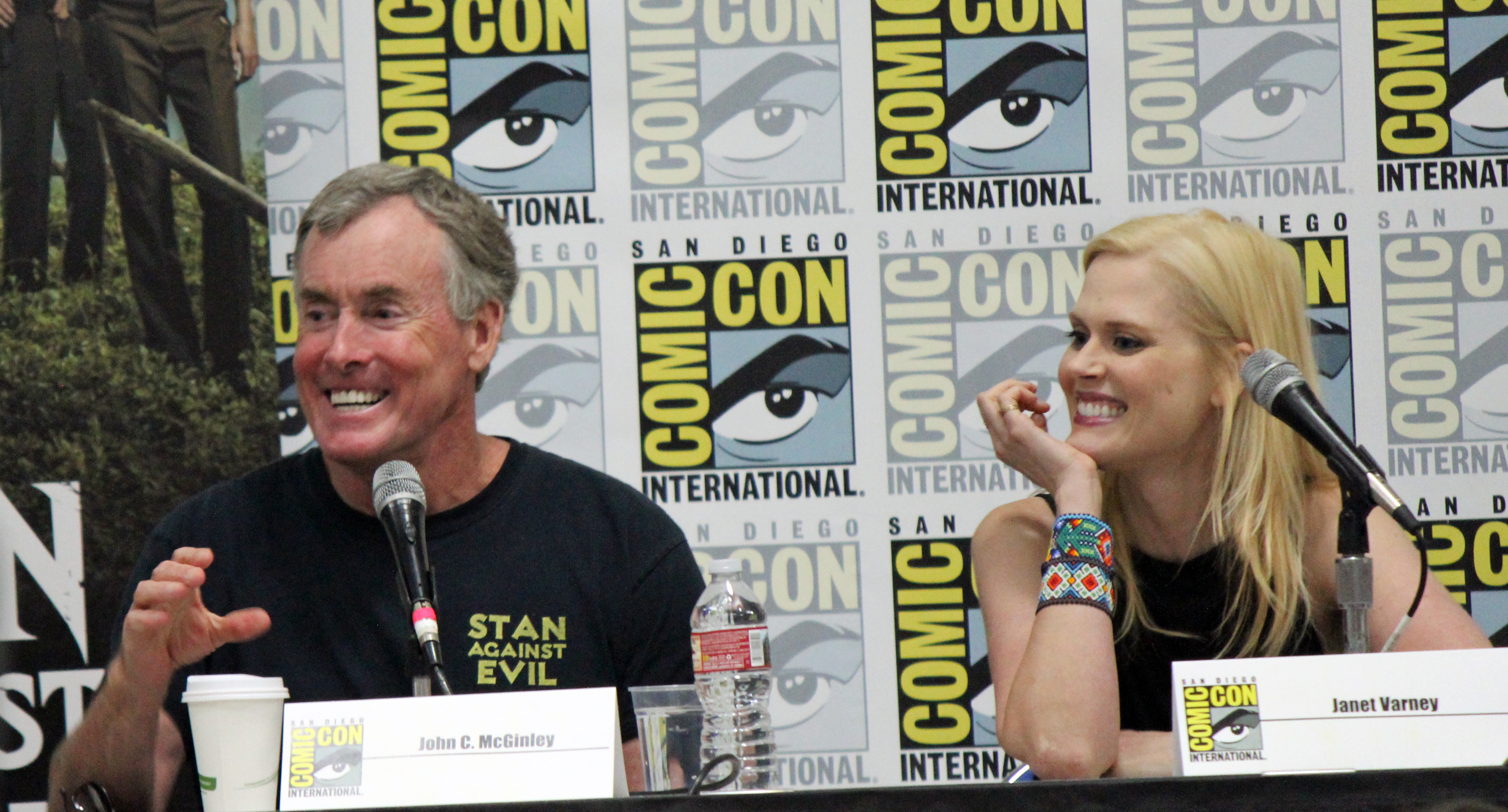 John C. McGinley and Janet Varney speaking at a Stan Against Evil panel during the 2017 Comic-Con International at the San Diego Convention Center.